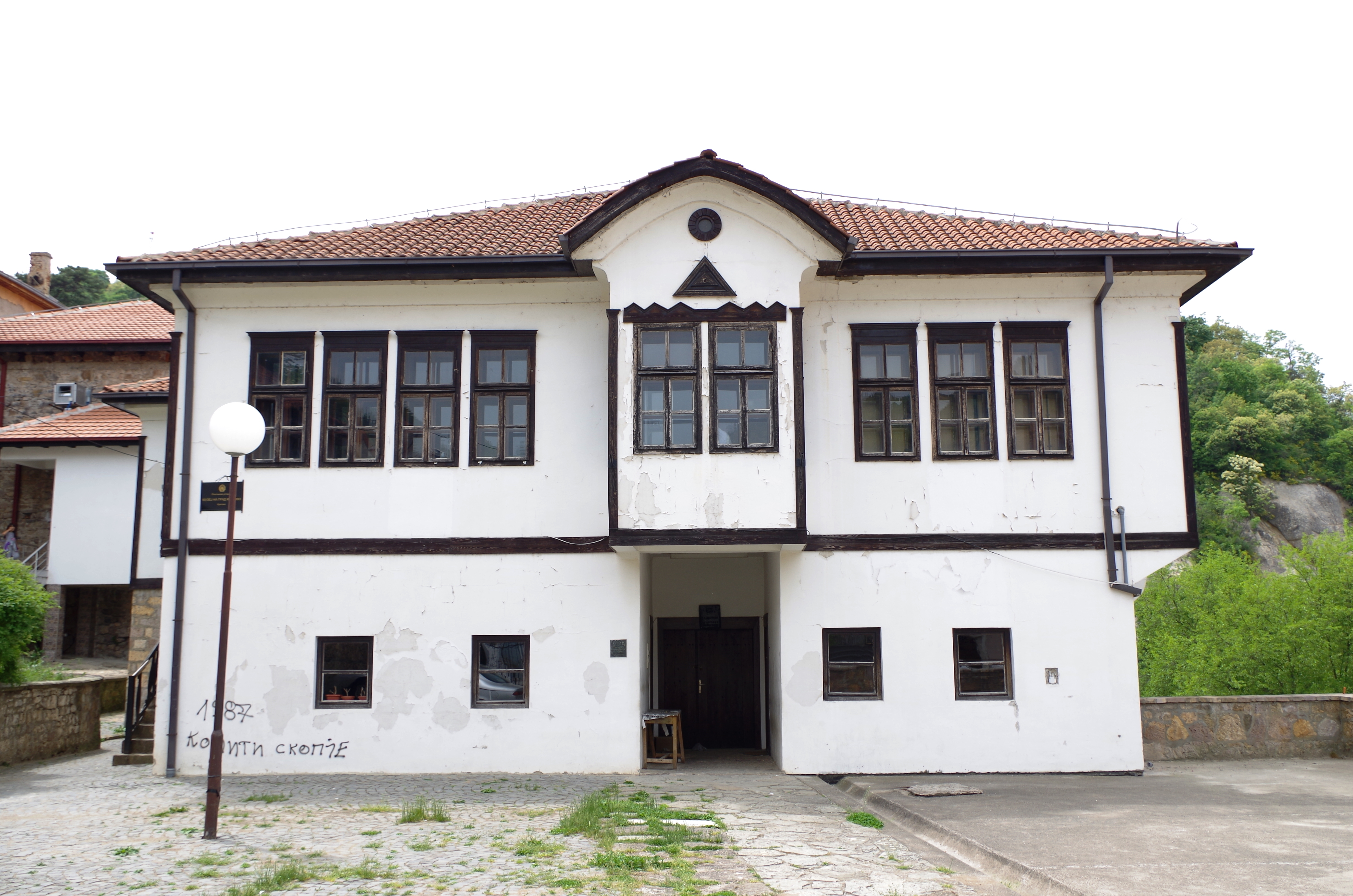 Kratovo Town Museum